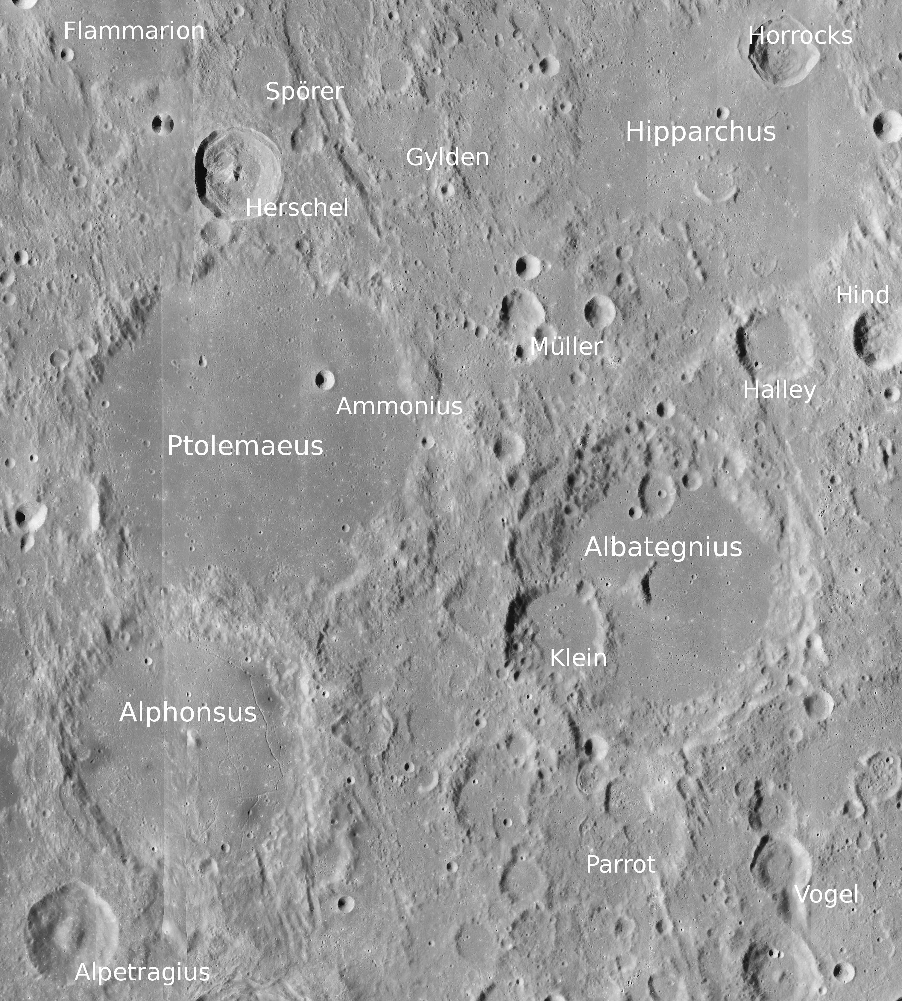 Craters Ptolemaeus, Alphonsus, Hipparchus and Albategnius (detail of LRO - WAC global moon mosaic; Mercator projection)